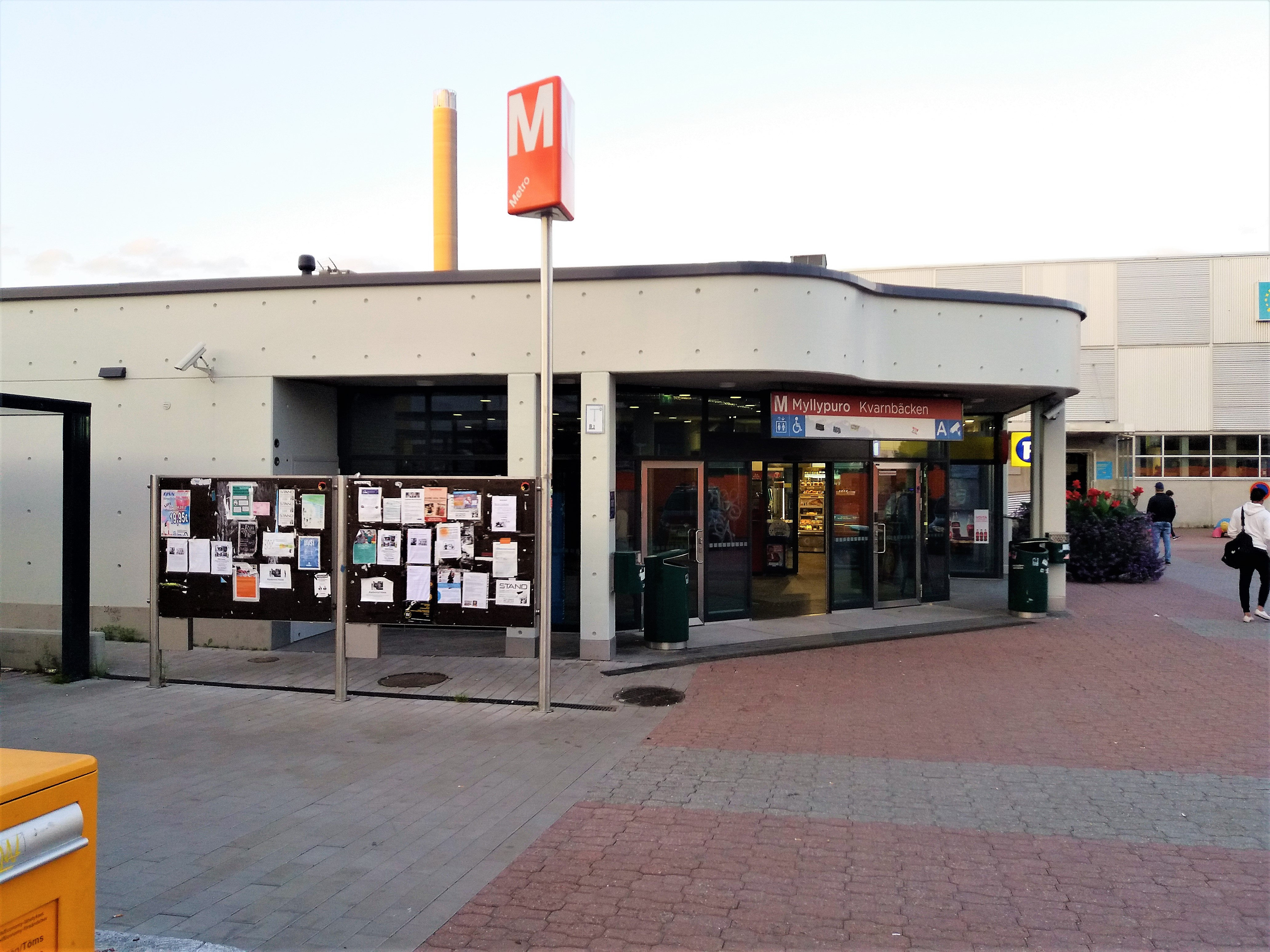 Myllypuro metro station, main entrance.